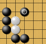 An example of geta in the game of go